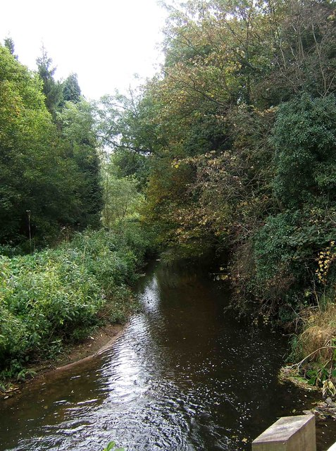 Smestow Brook (or River Smestow). Viewed from the bridge taking Greensforge Lane across the brook. 1624127.